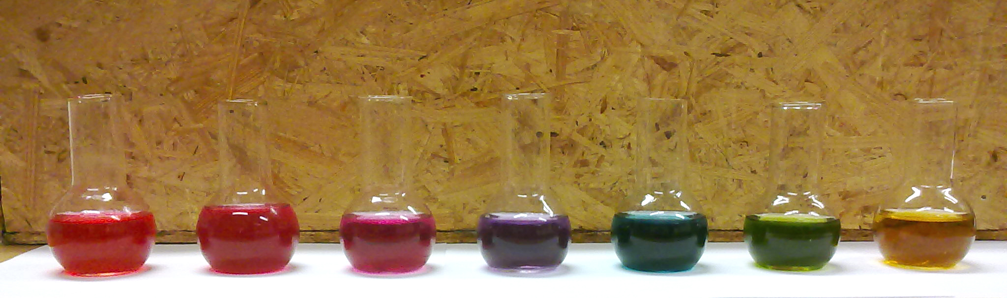 Solutions with different pH value to which indicator solution made from red cabbage has been added. pH value increases from left to right.